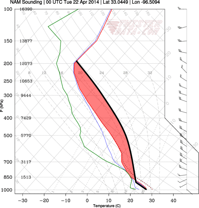 Convective Instability, denoted in the red highlighted region, on a SKEW-T chart.